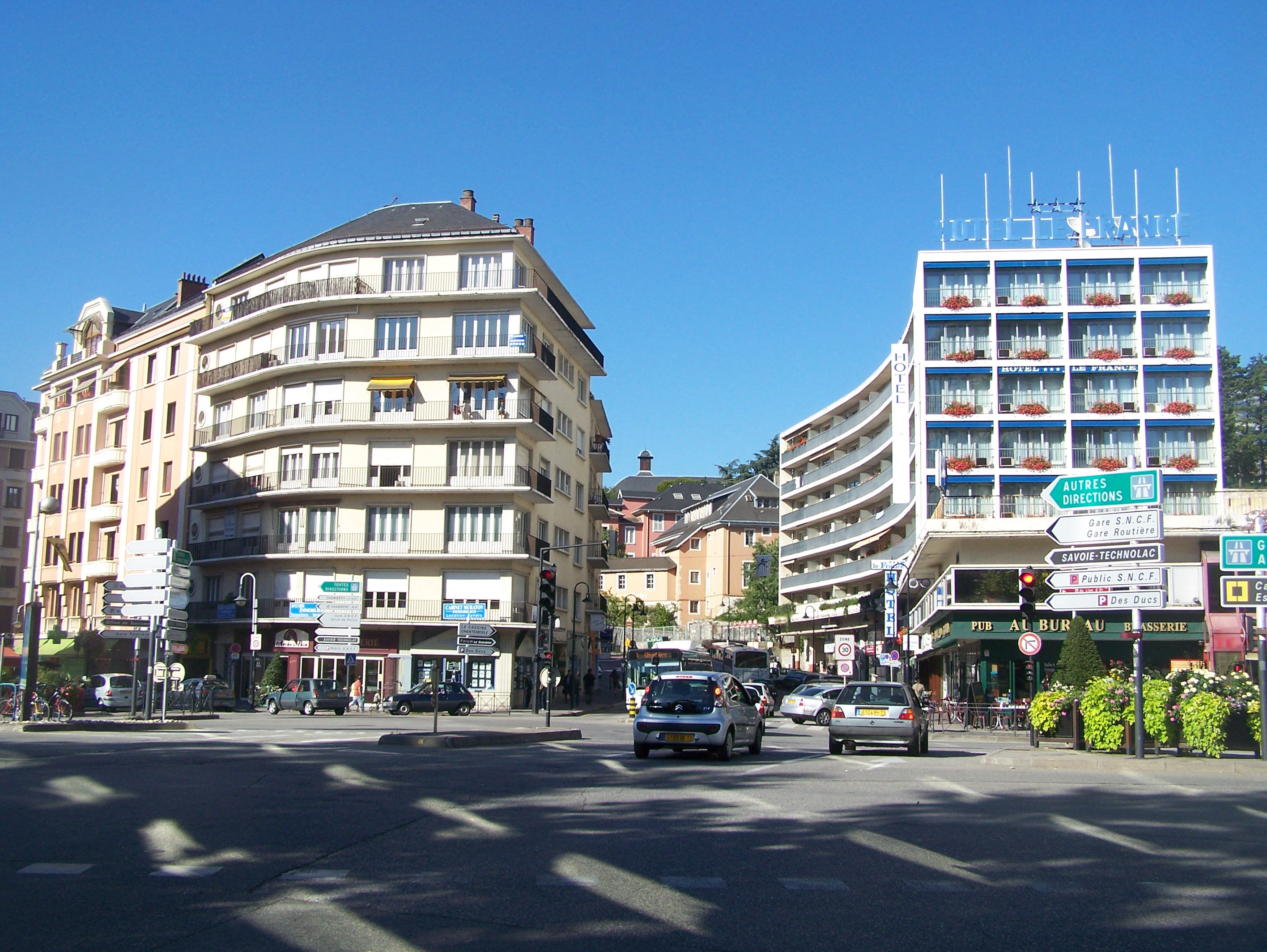 Sight of the place du Centenaire place, in city of Chambéry downtown, in Savoie, France.